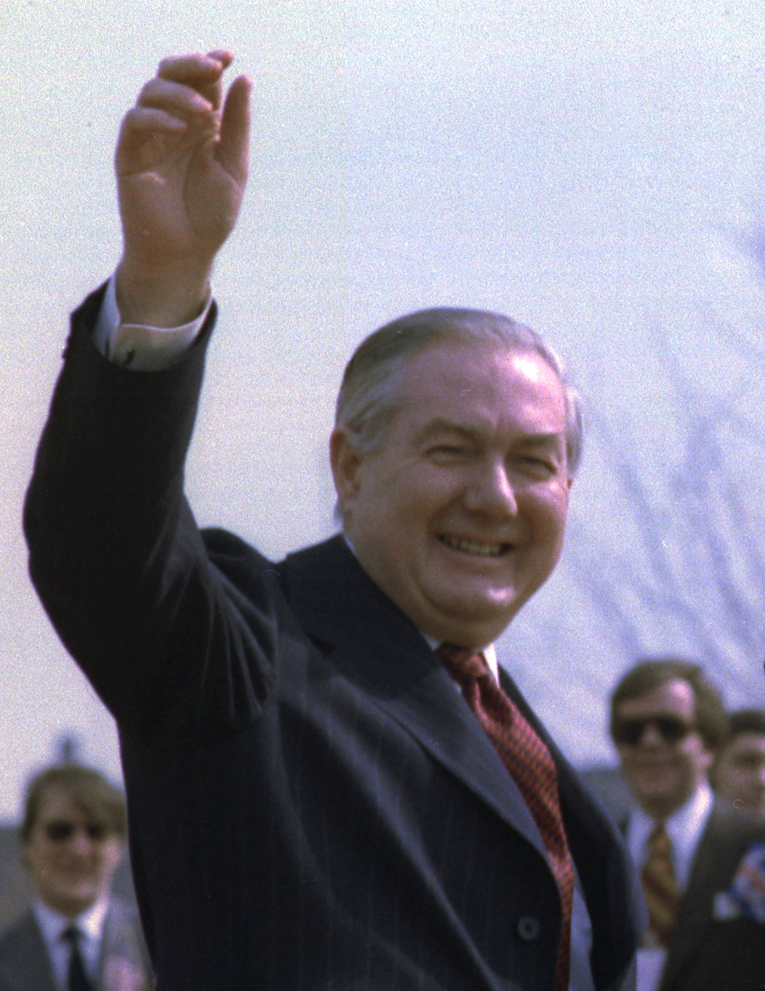 Depicted person: James Callaghan – former prime minister of the United Kingdom